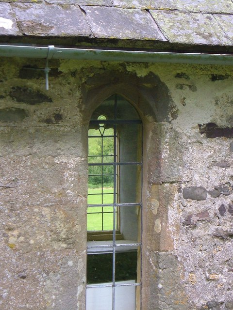 That window, Oare church Labelled as the window through which Carver shot Lorna Doone as she stood at the altar on her wedding day. Pure conjecture, pure fiction.